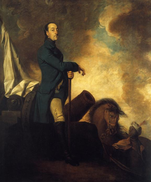 Frederick, Count of Schaumburg Lippe: 1764-67